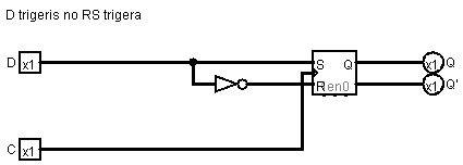 DtoRS